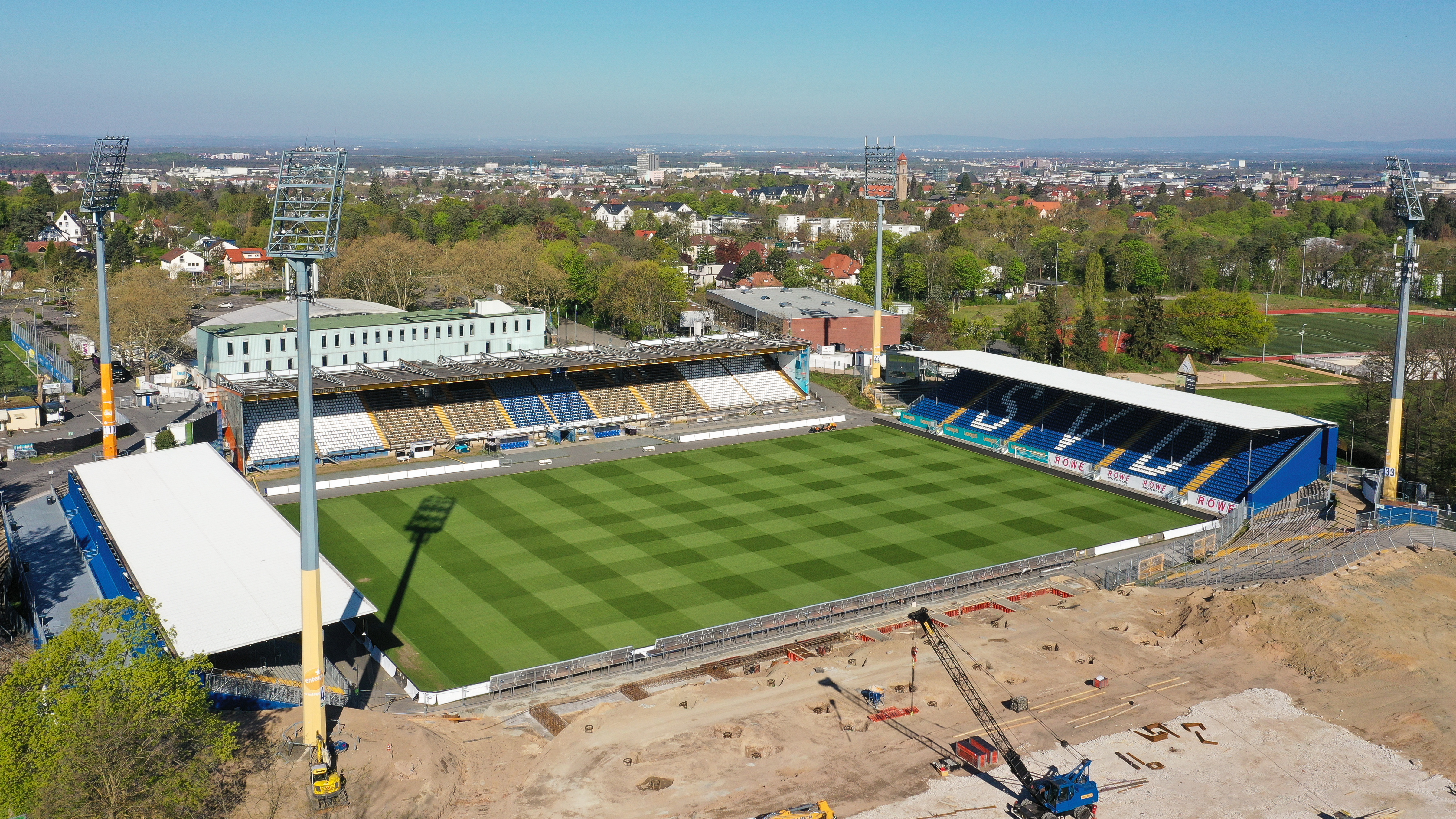 Aerial view of the stadium at Böllenfalltor with guest stand under construction, Darmstadt in the background